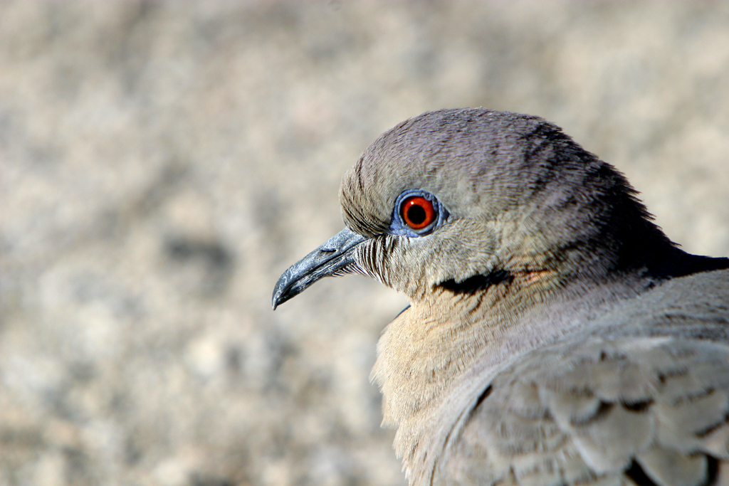 Native to south-western USA, Mexico and the Caribbean, the adult bird has beautiful red eyes with a featherless blue ring of skin encircling them.